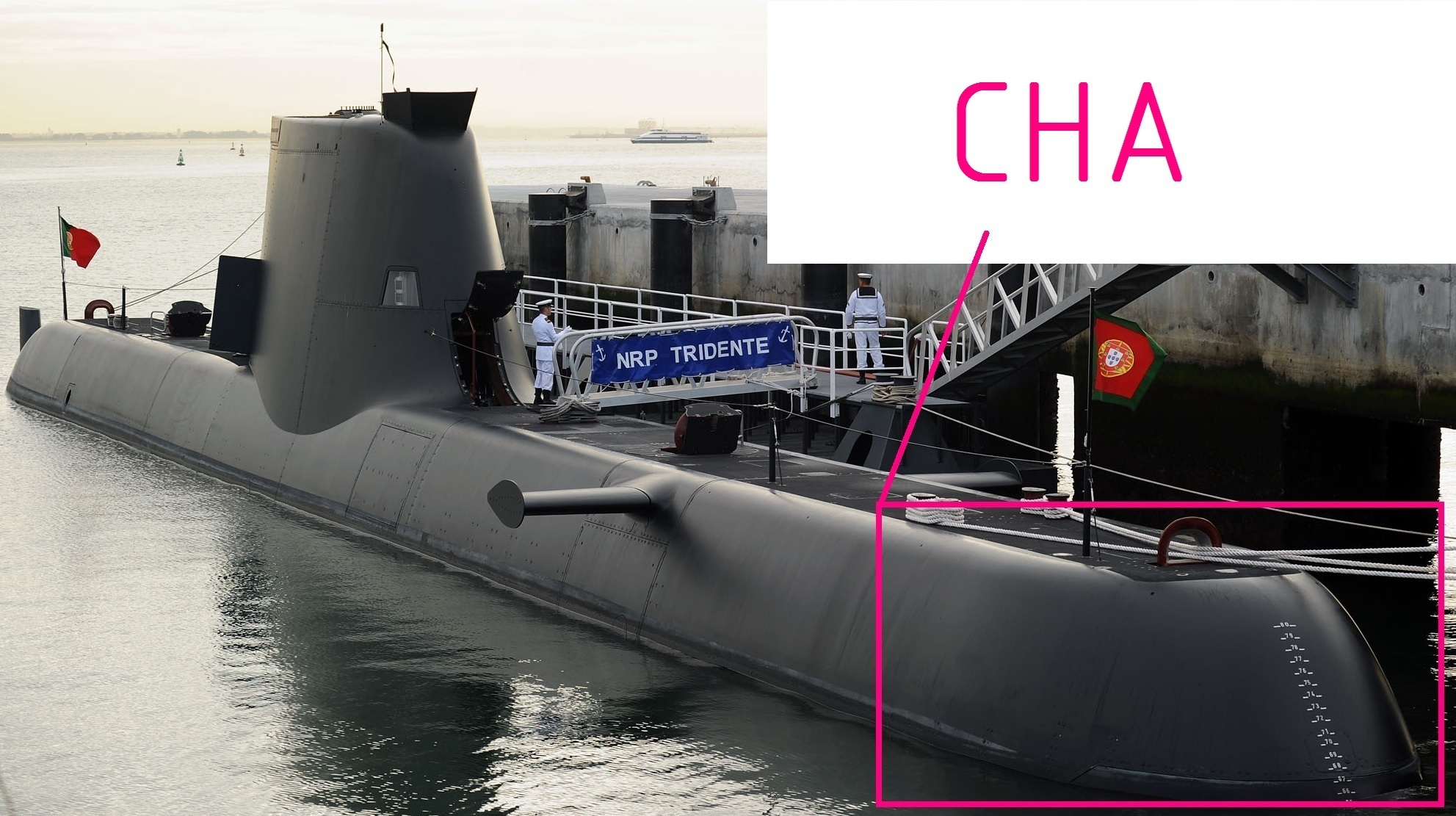 Position of the CHA in a Type 214 submarine